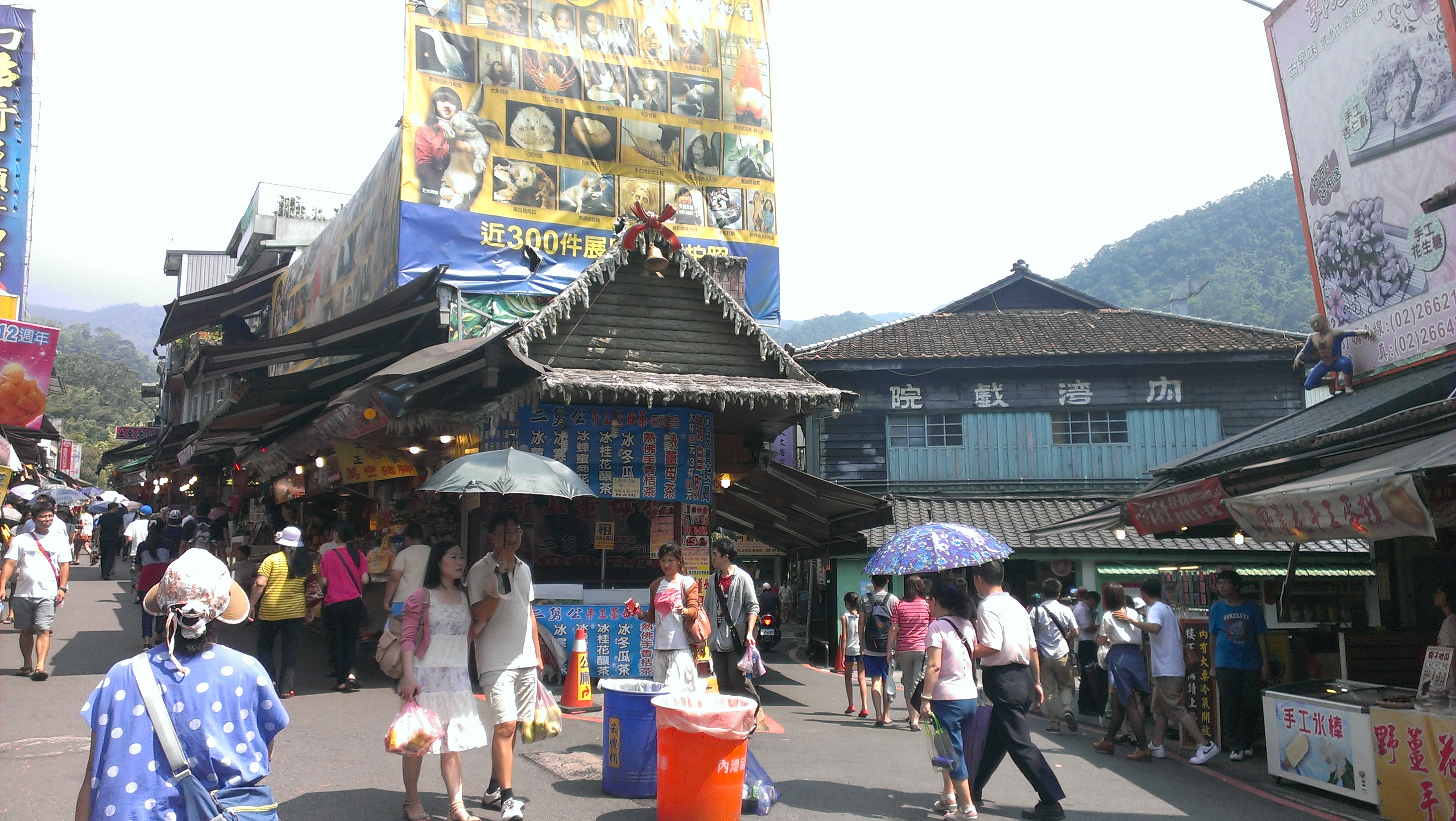 Neiwan Old Theatre from the Hengshan Township, Hsinchu County. 中文（台灣）: 臺灣新竹縣橫山鄉之內灣戲院